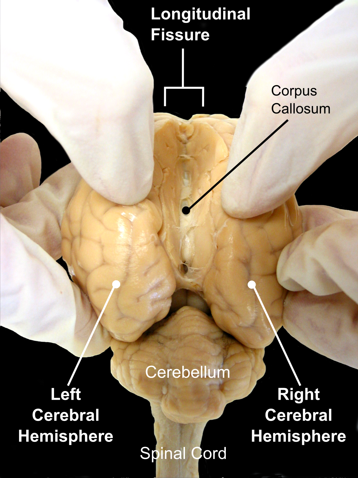 Sheep Brain. Opening longitudinal fissure, the fissure devide left and right cerebral hemispheres.